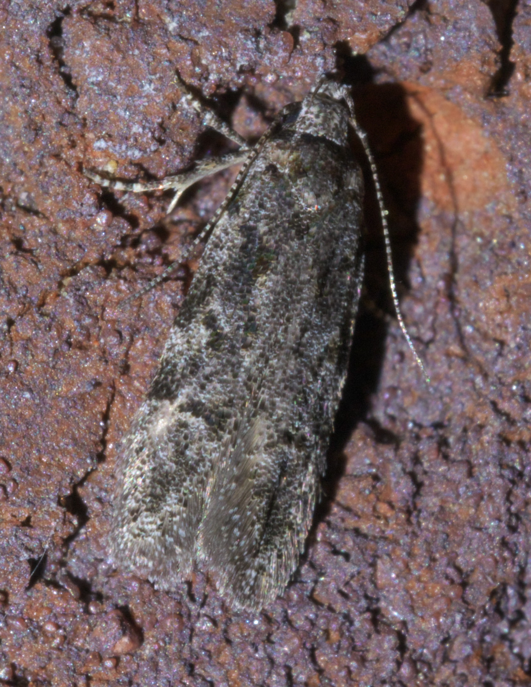 Xenolechia ontariensis, Hodges #1878, Size: 6.3 mm, ID Confidence: 88